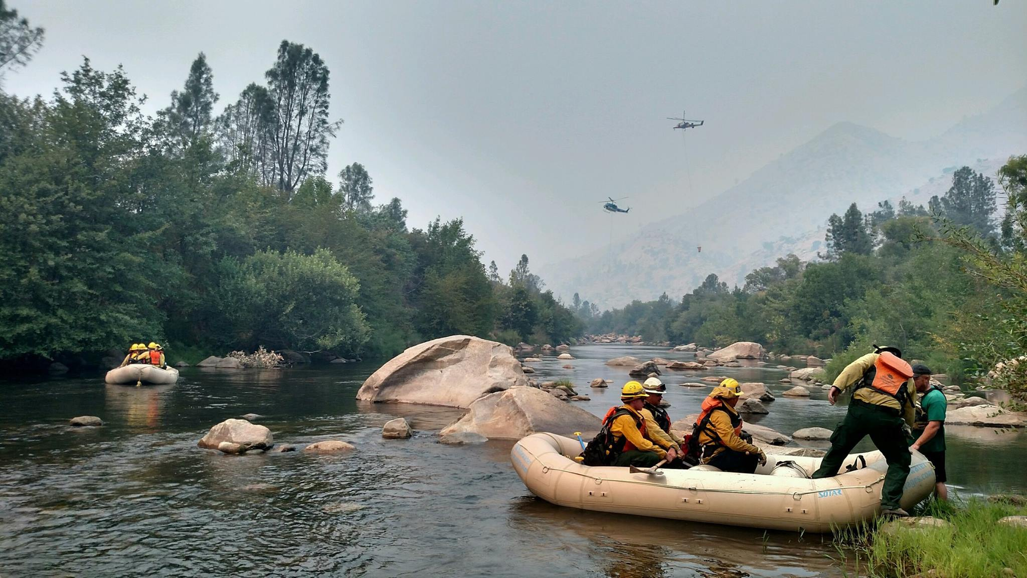 Firefighters from the #CedarFire assist local SQF crew suppress the Chico fire that started yeaterday near Riverkern. Crews attacked the fire from the air and ground crews where shuttled accross the river to stop the fire from progressing.